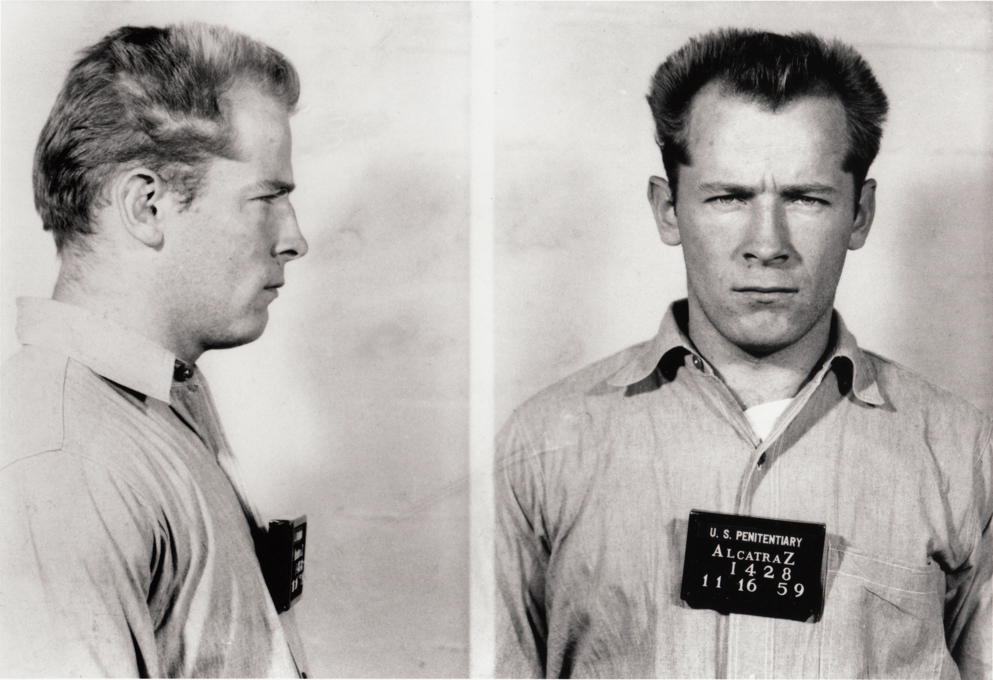 Mug shot of James J. Bulger.